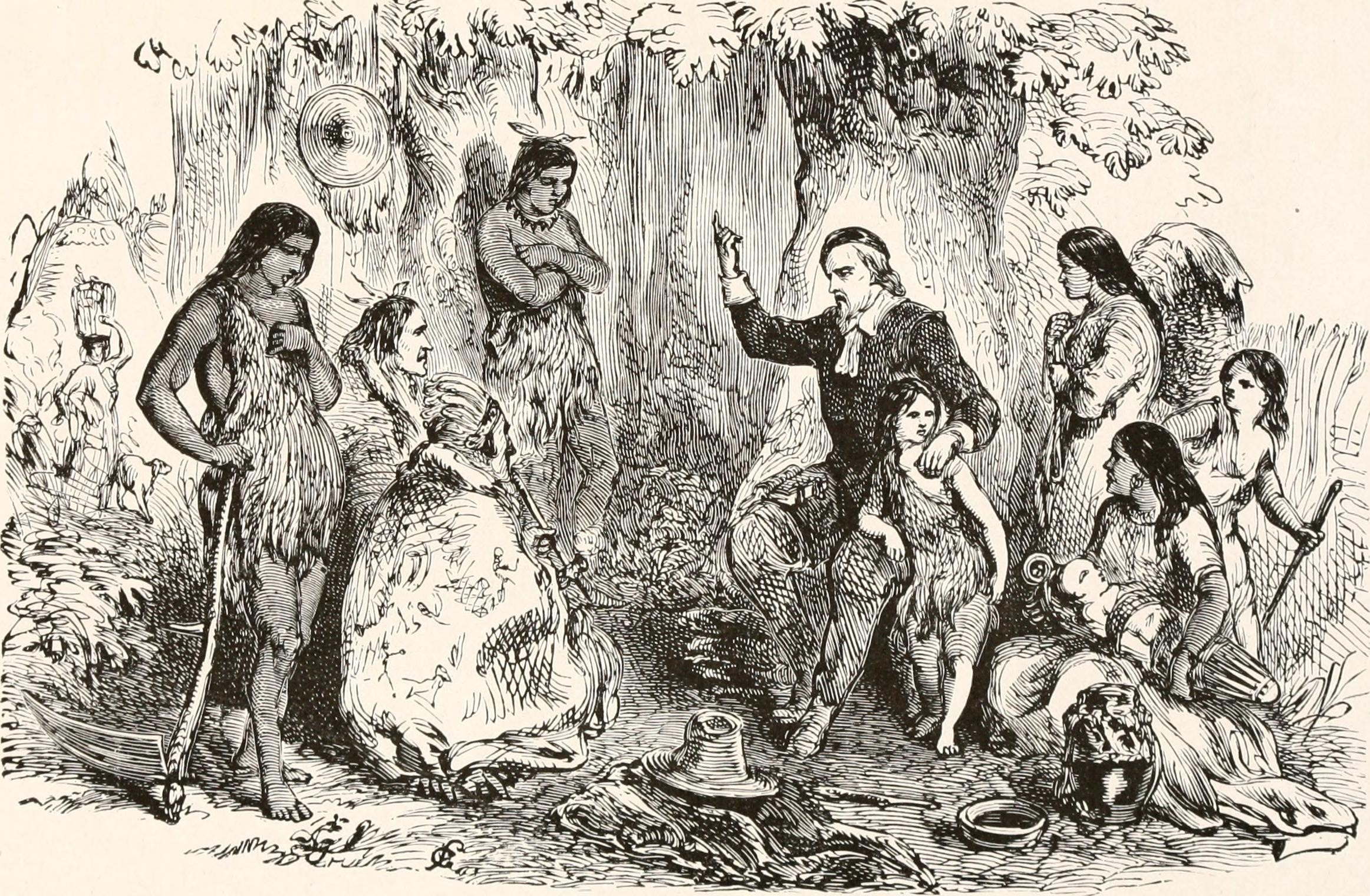 John Eliot preaching to the Indians Title: Indian history for young folks Year: 1919 (1910s) Authors: Drake, Francis S. (Francis Samuel), 1828-1885 Dowd, Francis Joseph, 1876- Subjects: Indians of North America Indians of North America -- Wars Publisher: New York London : Harper & Brothers Text Appearing Before Image: JOHN ELIOT o a t- s 1 o z Z o Text Appearing After Image: THE NEW ENGLAND INDIANS. 125 t to read and write, and soon there were fourteen places of Praying «/ O Indians, as they were called. In 1673 six Indian churches had been gath-ered. A death-blow was given to these pious labors by Philips war.Some of these Indians joined in it with their countrymen, and this soexasperated the English, that the remainder of those who were faithfulto them were with difficulty rescued from destruction. The treatmentthey then received created a breach between them and the English thatwas never healed. Their number rapidly diminished, and they finallydisappeared. Eliot introduced among his converts industry, cleanliness, and goodorder. He drew up for them a simple code, punishing idleness, filthiness,licentiousness, and cruelty to women. A court was established at Nonan-tum, over which presided Waban, an Indian justice of the peace. Therewas no circumlocution in his office. Justice was speedily and impartiallyadministered. Here is a specimen warrant: You, yo